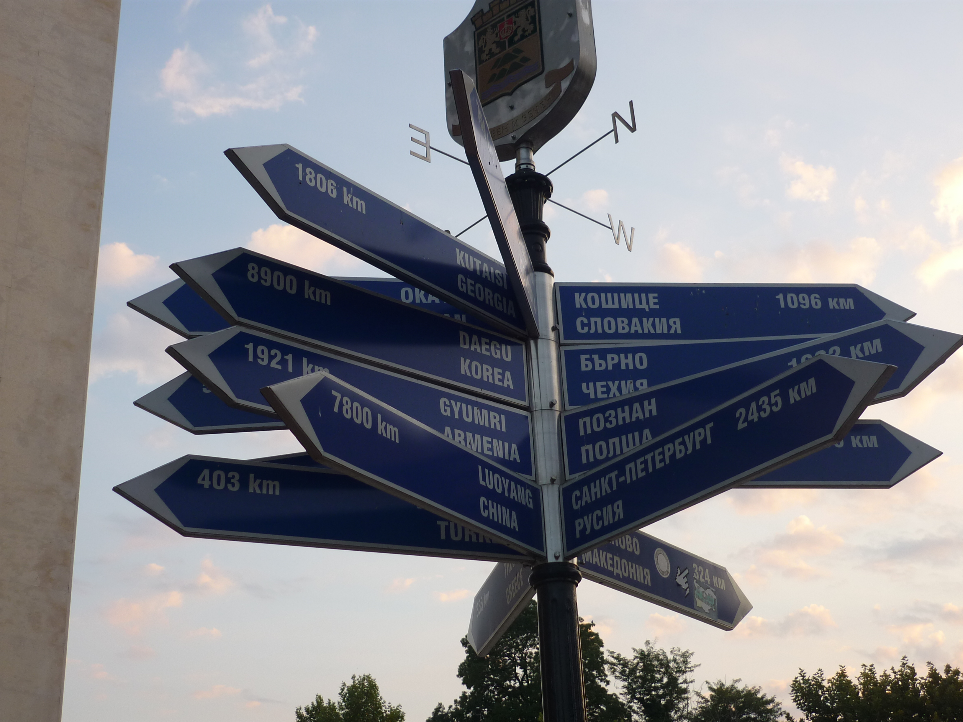 Direction signs - Plovdiv's sister cities, Bulgaria